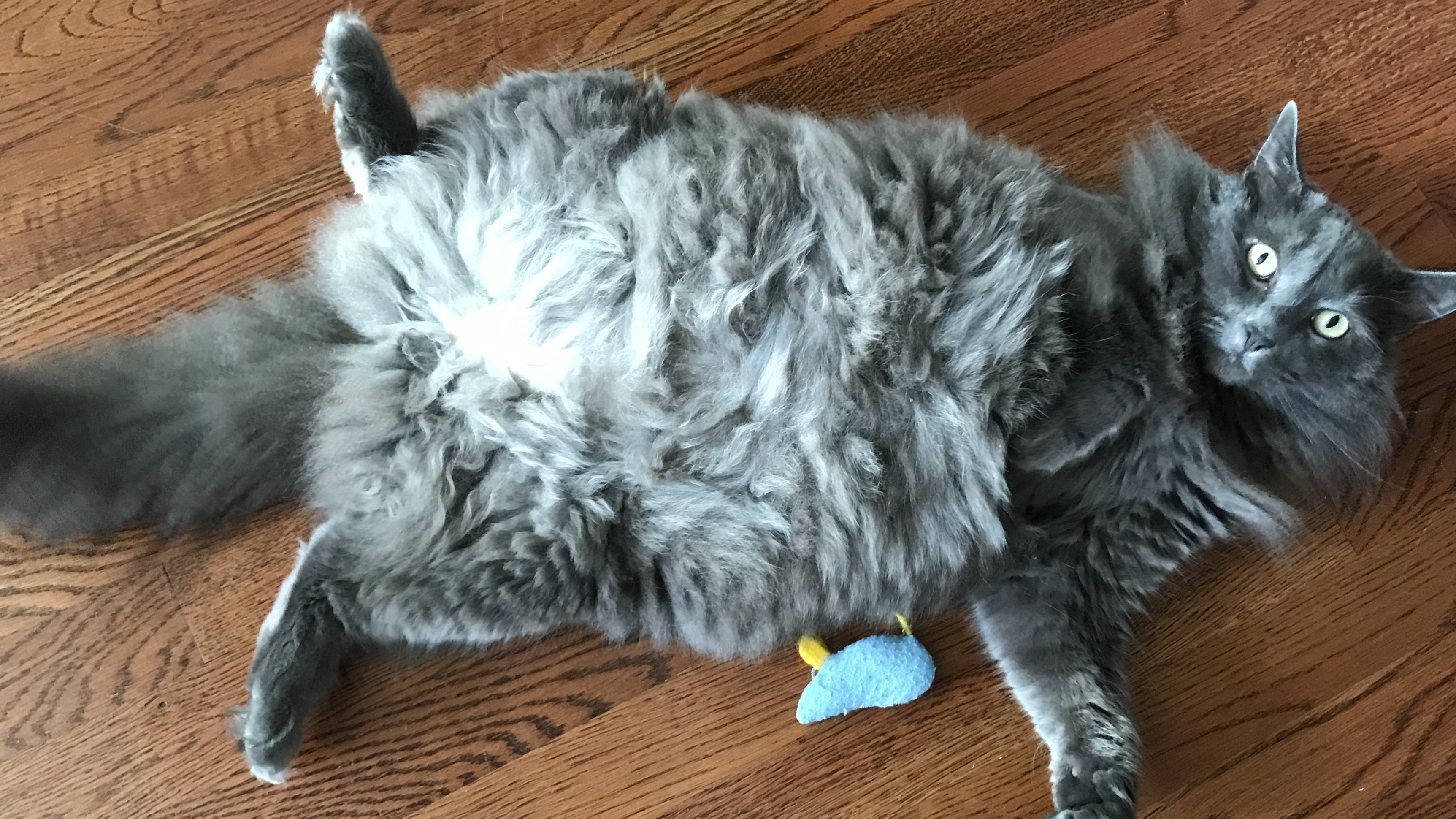 A lovely nebelung male showing his belly, ready to recieve affection